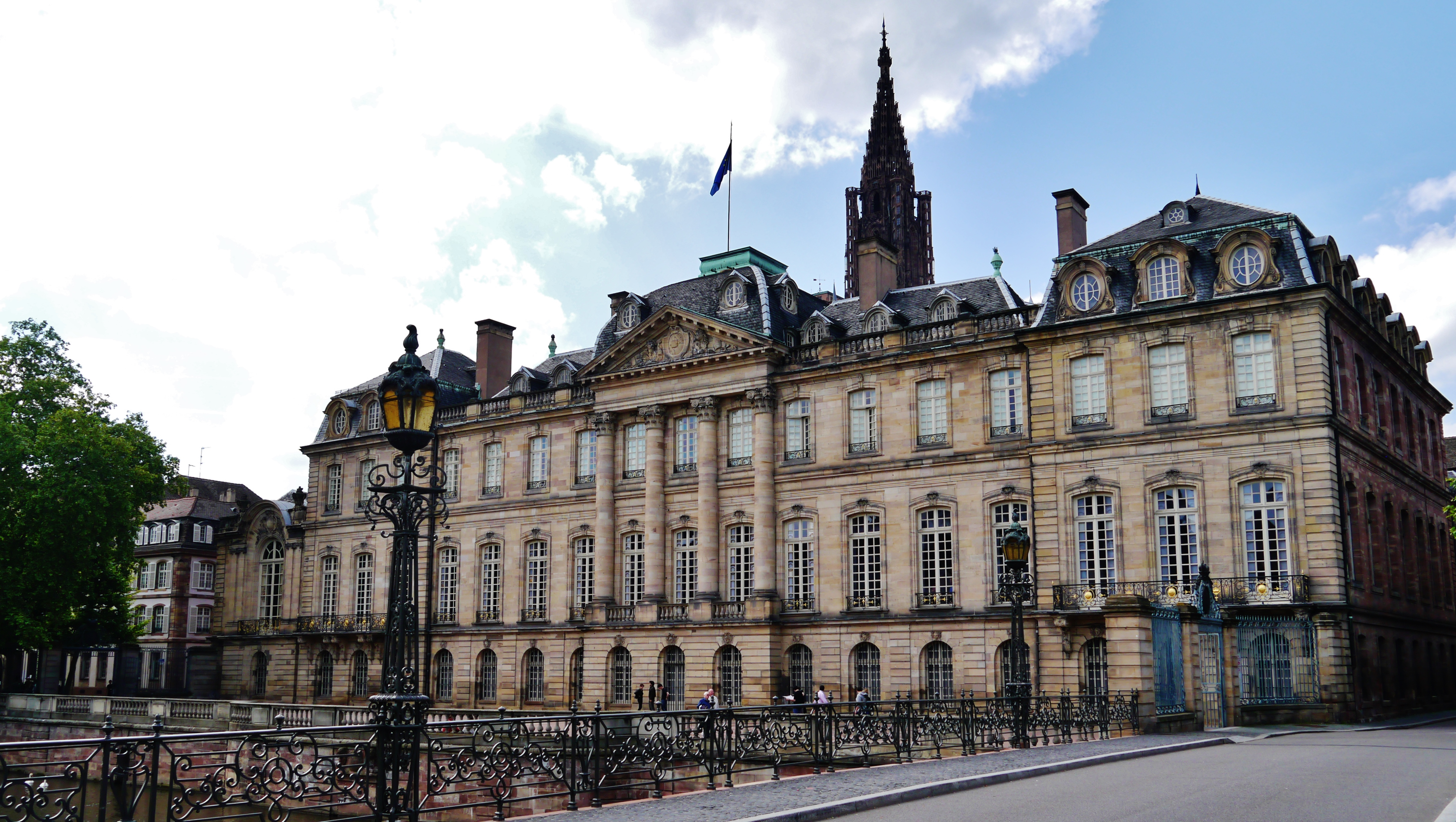 Rohan Palace, Strasbourg, Alsace, France